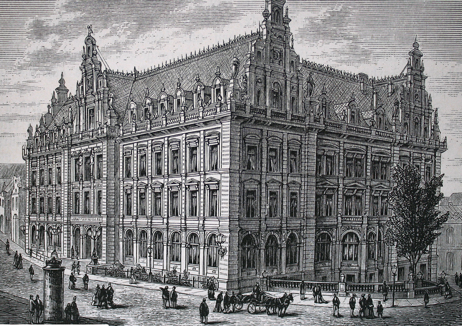 Reichspost in Bremen - the building is still there but was built after 1865. Bremen Main Post Office Building - Kaiserliche Oberpostdirektion (Bremen)